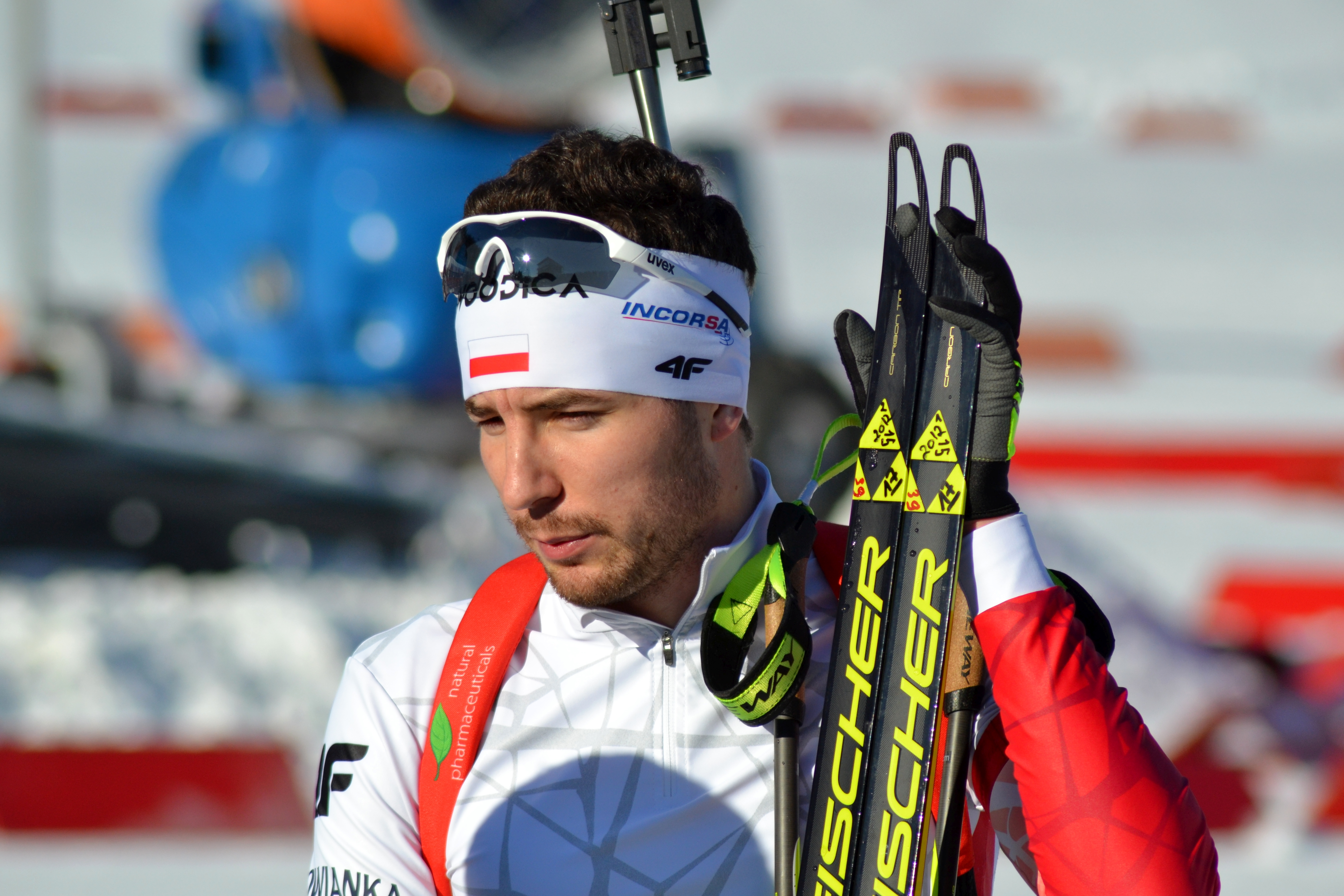 Open European Championships Biathlon 2017, Sprint Men's race, held on January 27th.